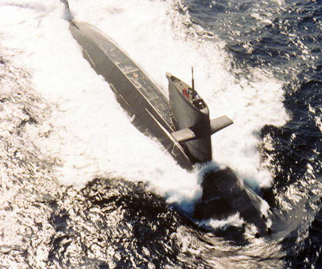 Hai Lung class submarine of Republic of China Navy surfaces during a military exercise.